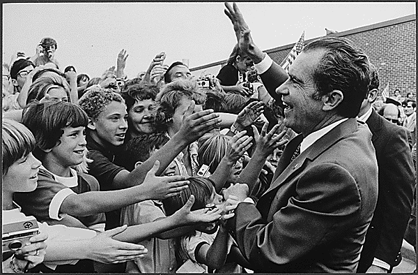 Richard M. Nixon being greeted by school children during a campaign stop.